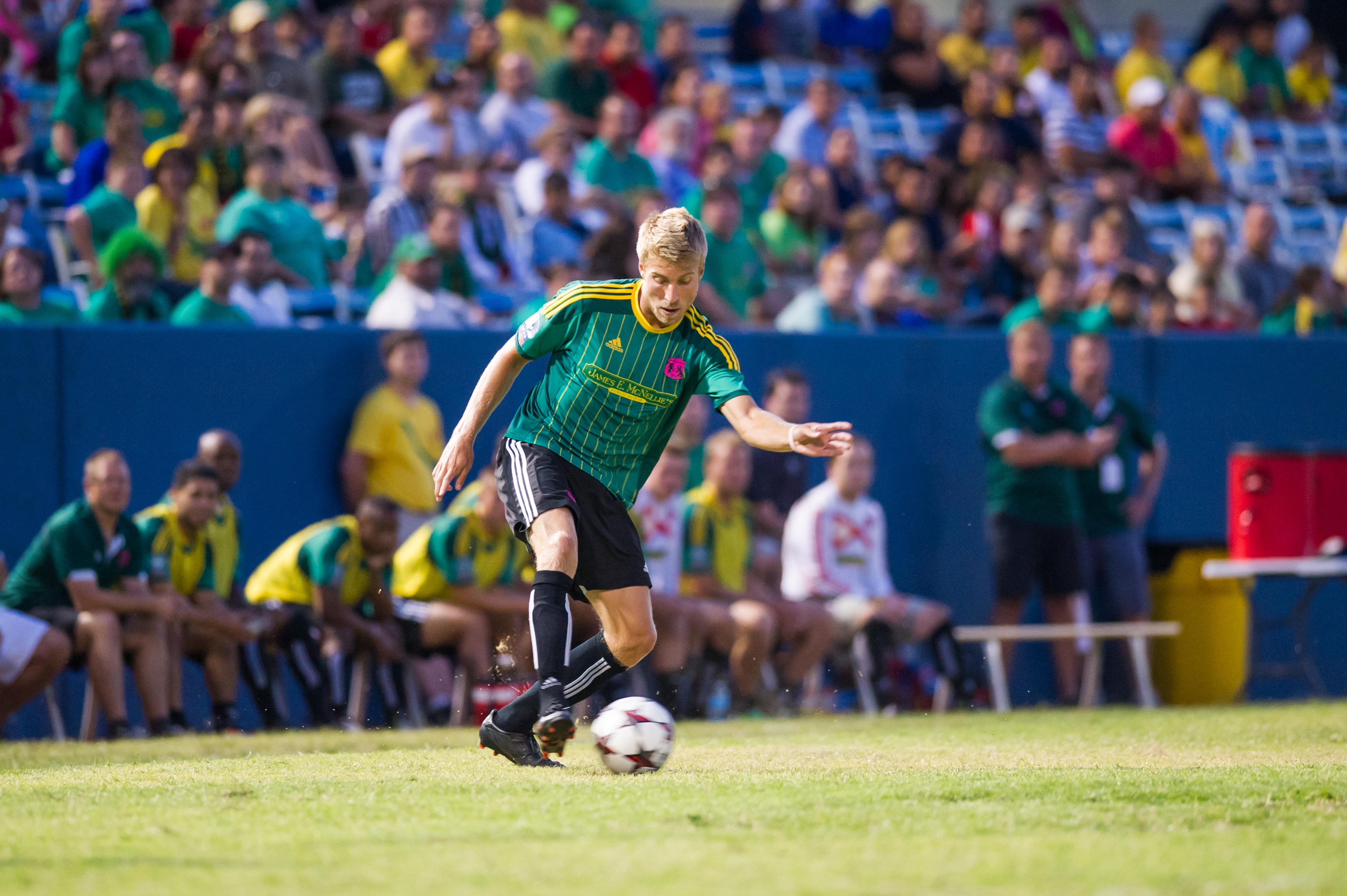 Jake Dobkins vs. Club America July 2nd, 2013